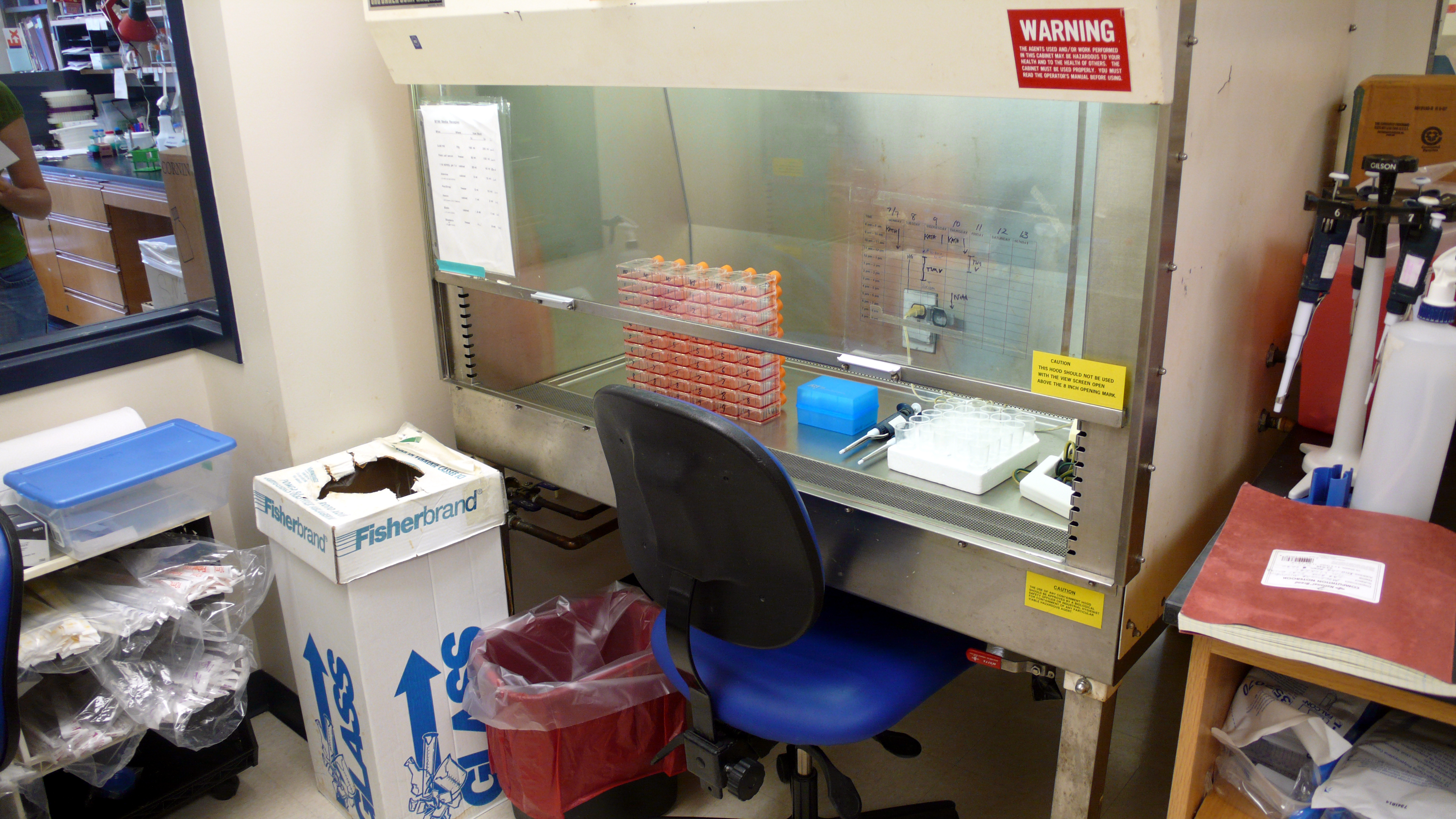 Work area in biocontainment level 2 suite